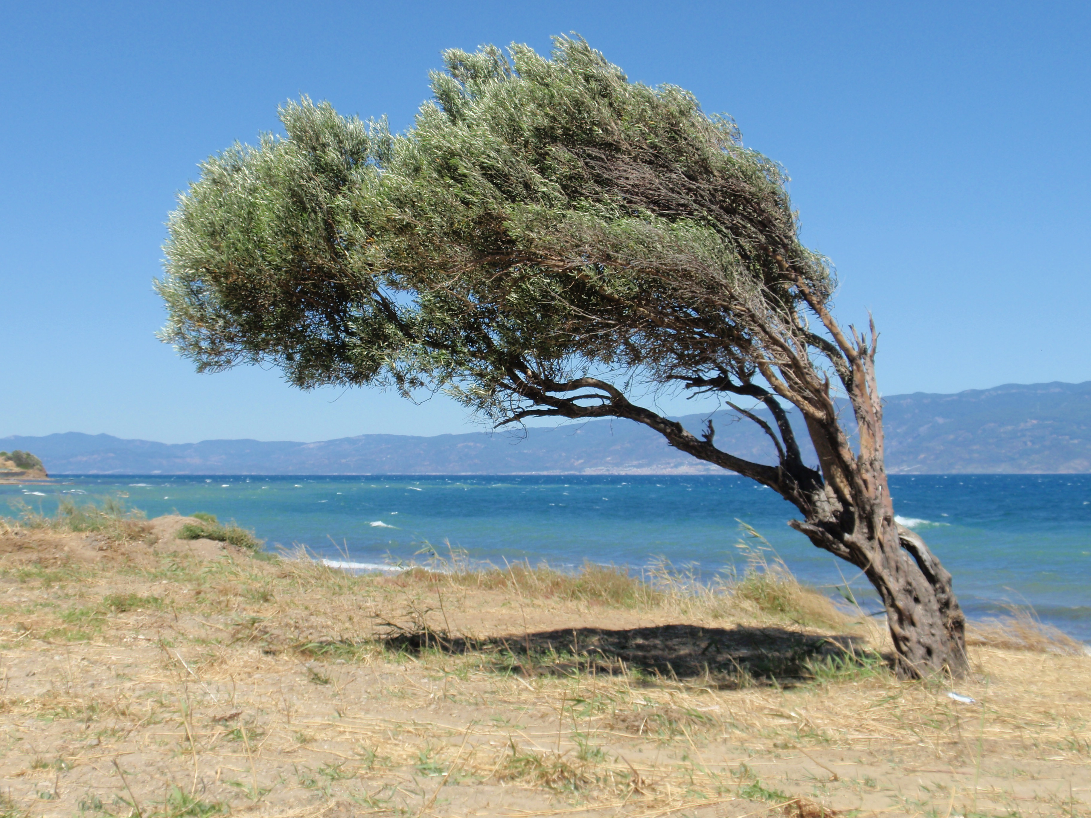 Olive tree near sea in Pelitköy, Turkey